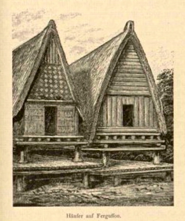 Houses on Fergusson Island, sketch by Otto Finsch, accessed via the World Digital Library